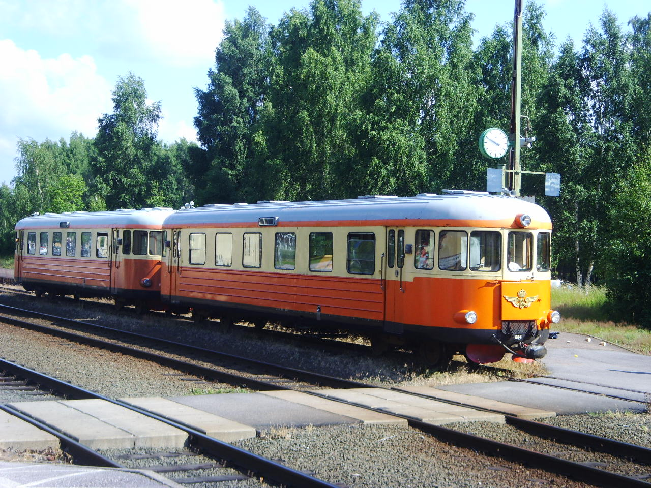 Hultsfred is a locality and the seat of Hultsfred Municipality, Kalmar County, Sweden with 5,305 inhabitants in 2005. It is best known for the Hultsfred Festival.